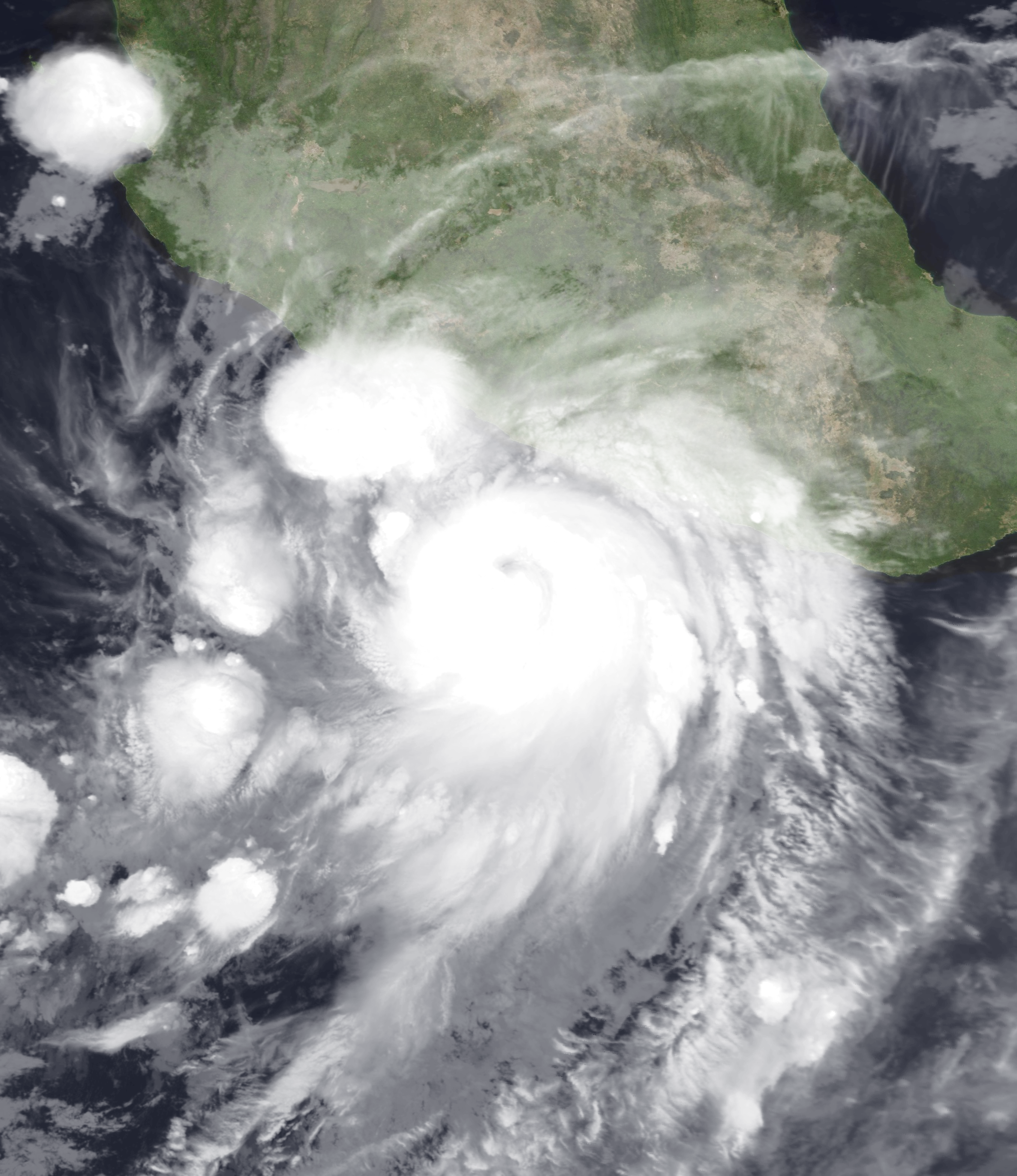 Hurricane John near peak intensity